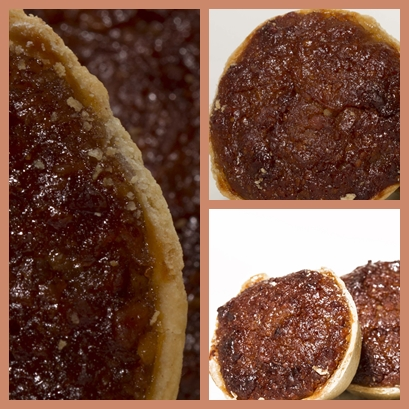 Ferreirenses (almond and chila cakes), typical of Ferreira do Alentejo